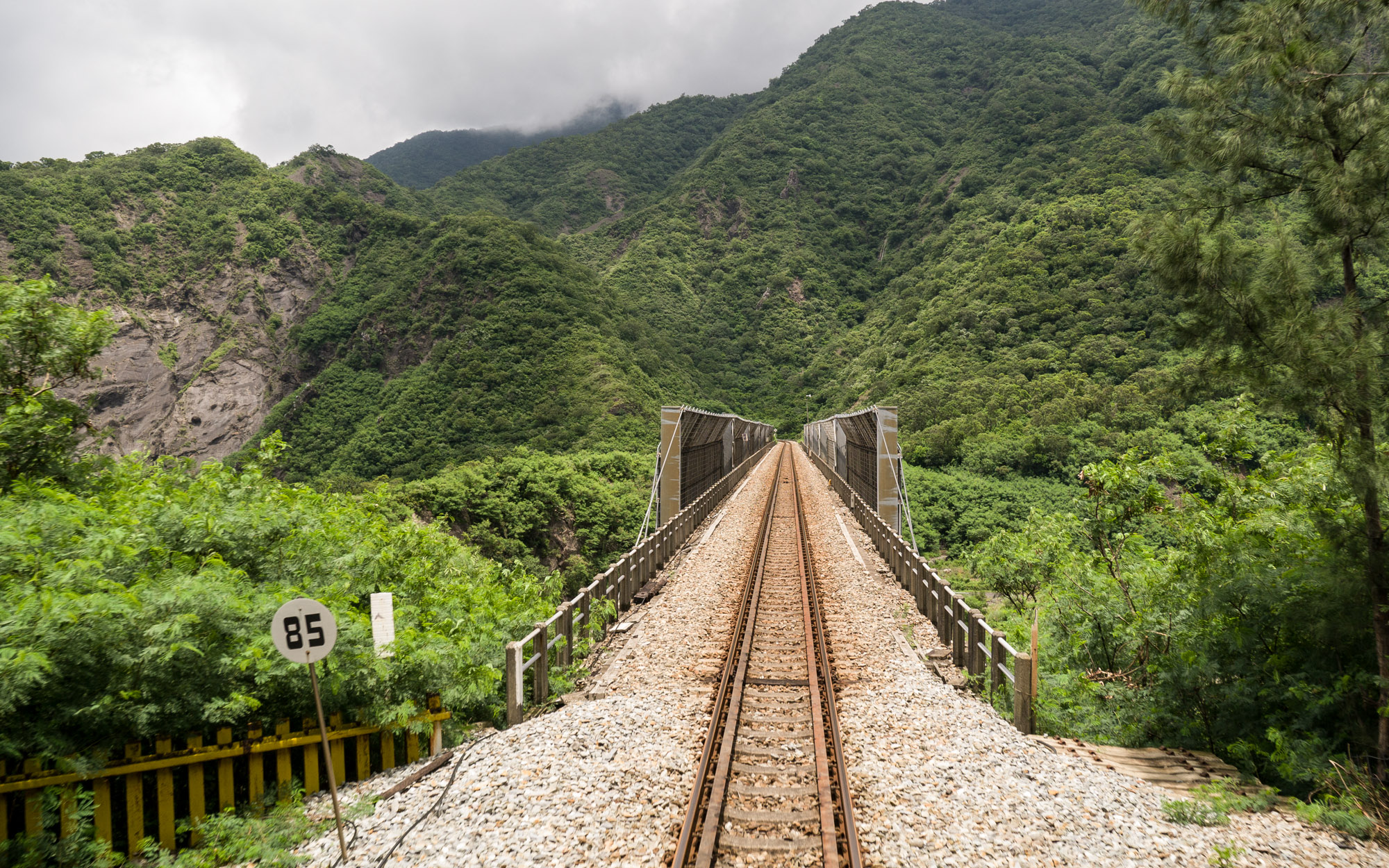 Scenic view towards the 2nd bridge of Fangye from along the South-Link Line, which is near Xidoujiao River. The met mast (a high pole) can be seen in the distance in the centre of the picture.